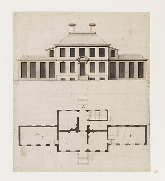 Finished design for an unidentified villa, probably by William Dickinson, c.1710-24